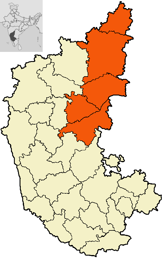 Locator map of Gulbarga division, Karnataka, India